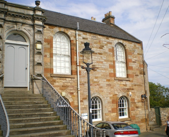 Pittenweem Library. This stands at the top of Cove Wynd, a few yards above 724668